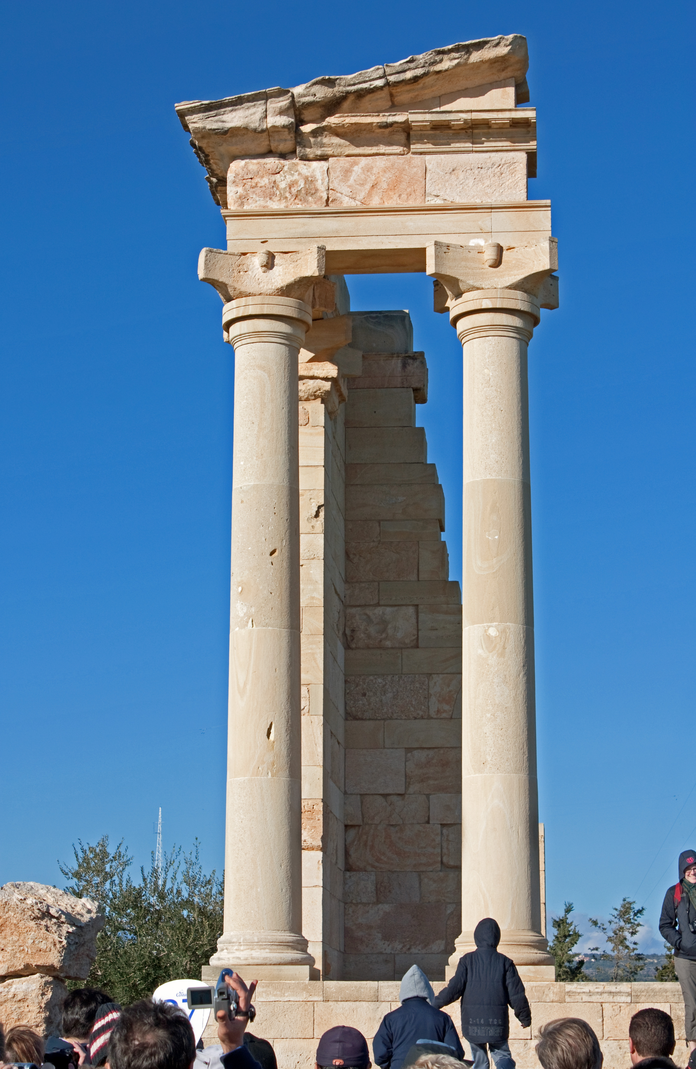 Temple at the Sanctuary of Apollo Hylates in Kourion, Cyprus.